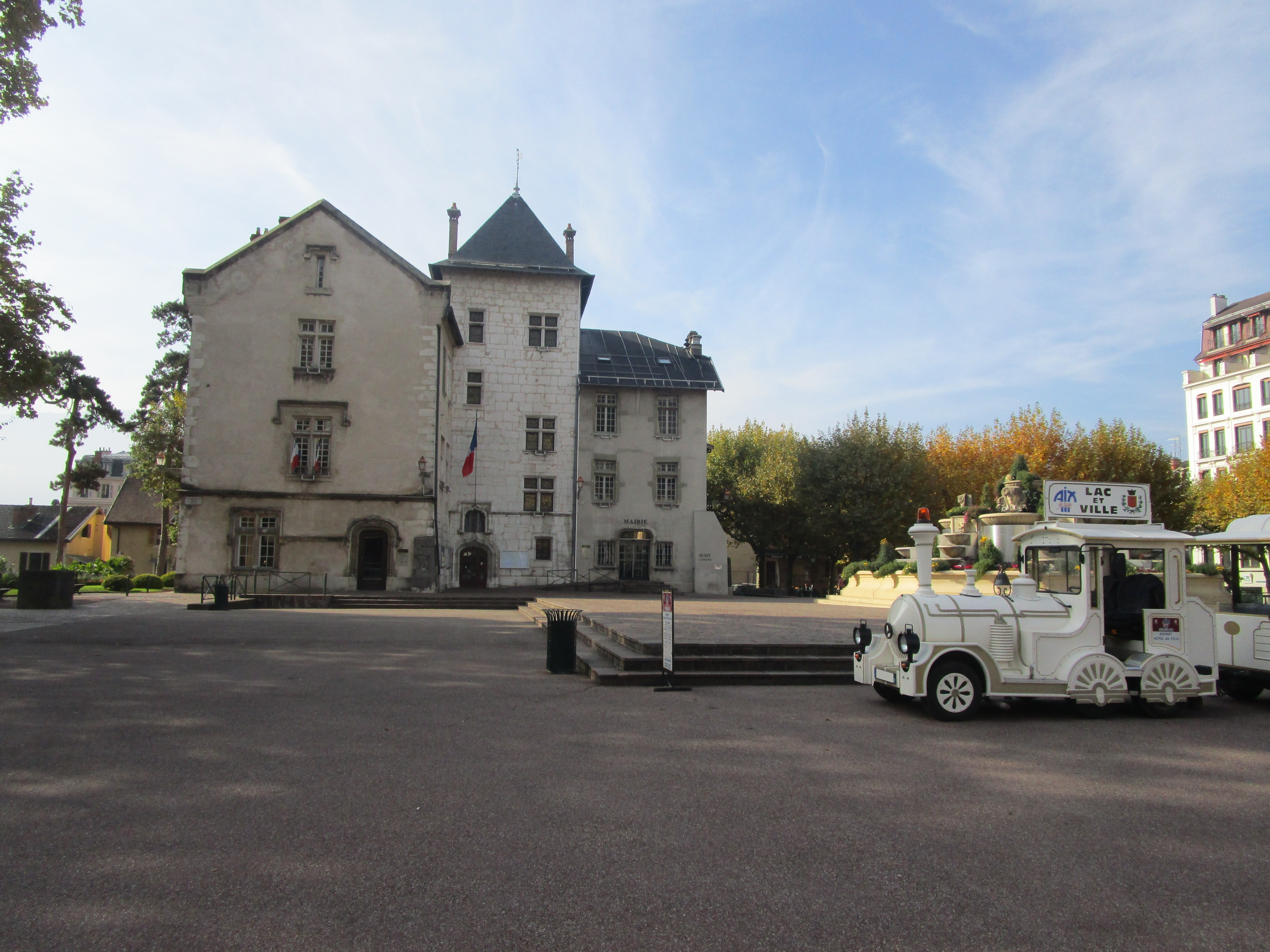 The Place Maurice Mollard of Aix-les-Bains with the touristic train of Aix-les-Bains on October 26, 2015.